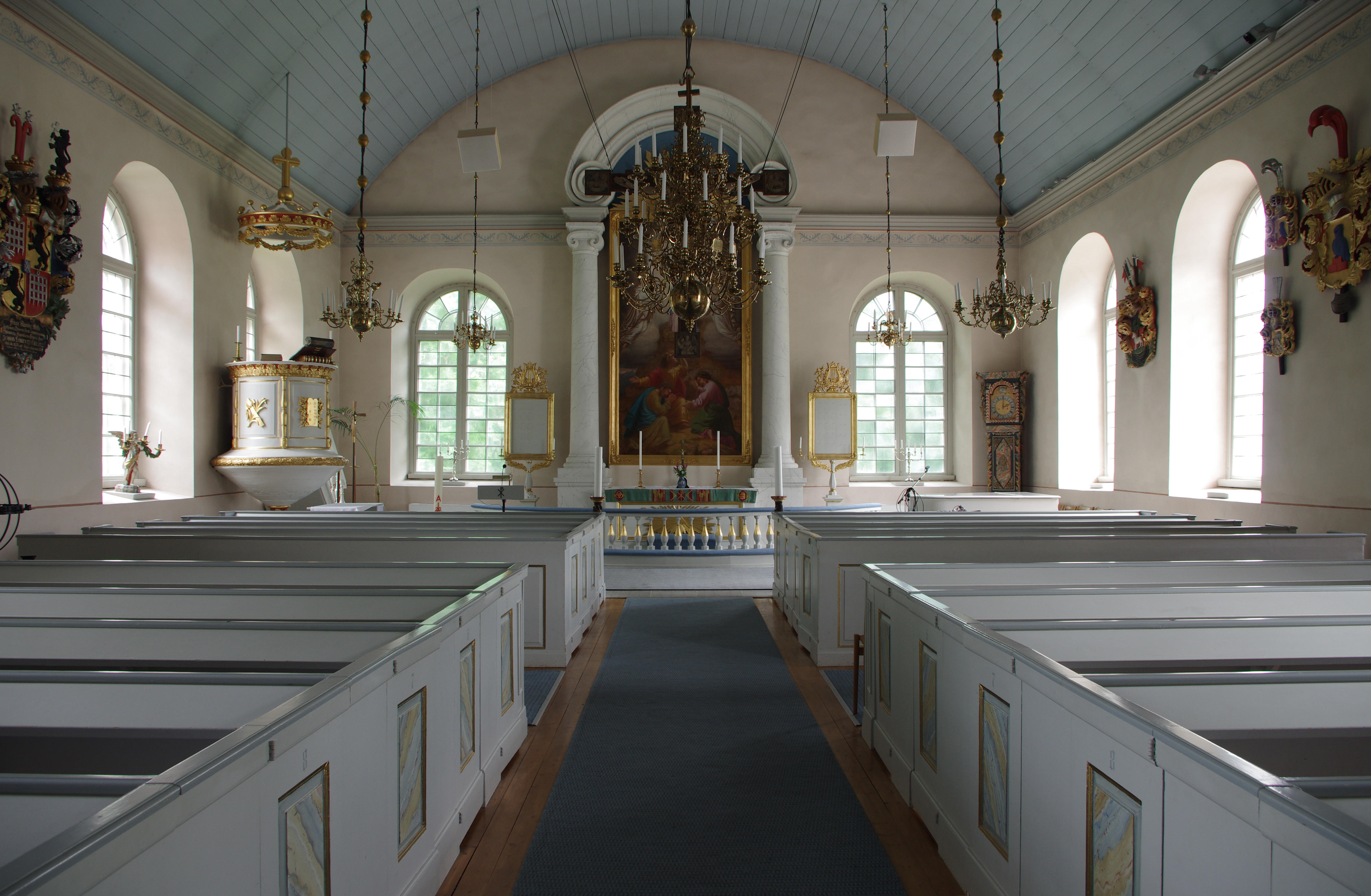 Sandhems kyrka (swedish: church of Sandhem), Västergötland, Sweden.